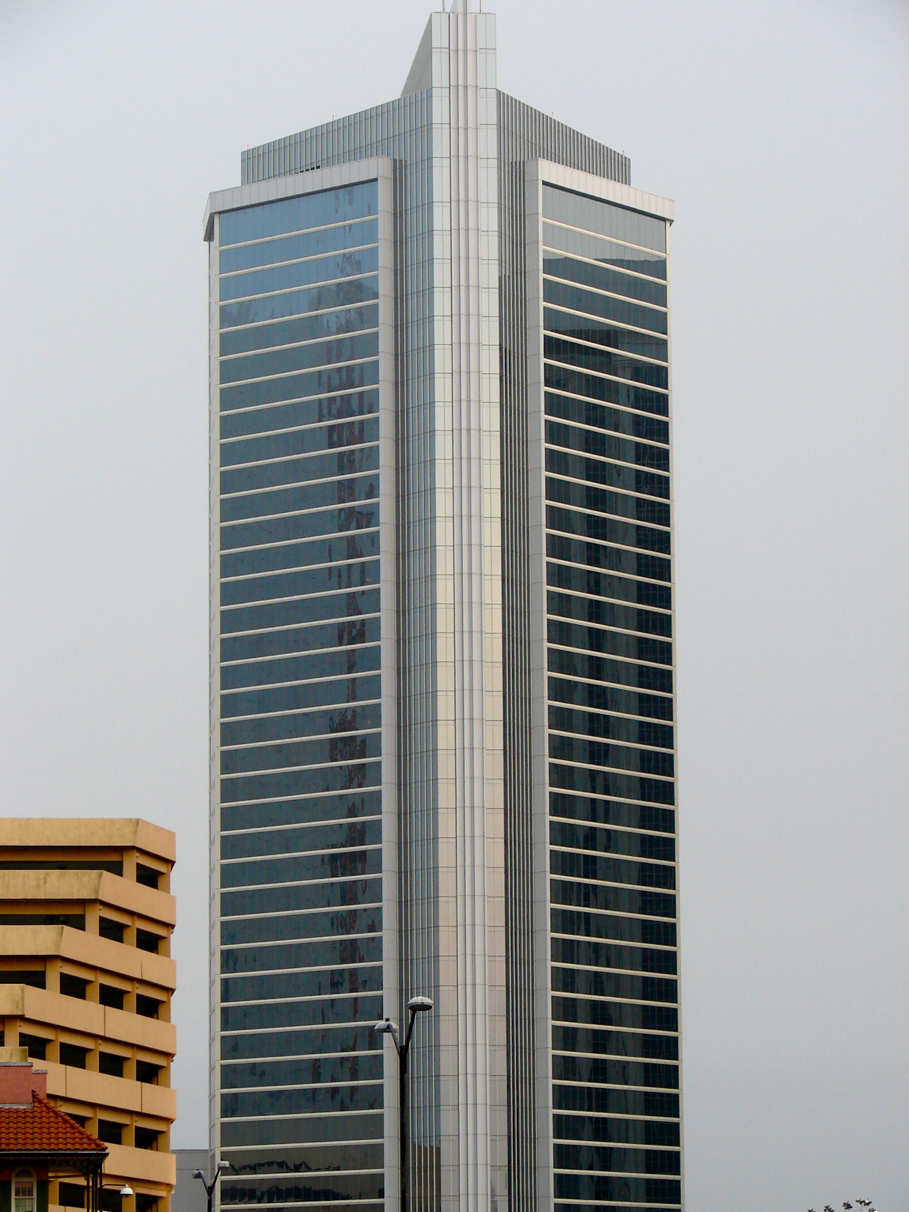 Trump Taj Mahal Chairman Tower, right next to the other Trump Tower, at 1000 Boardwalk, Atlantic City, New Jersey. Coords 39.358524°N 74.419434°W Height 470 ft (140 m), 41 stories, built 2008.